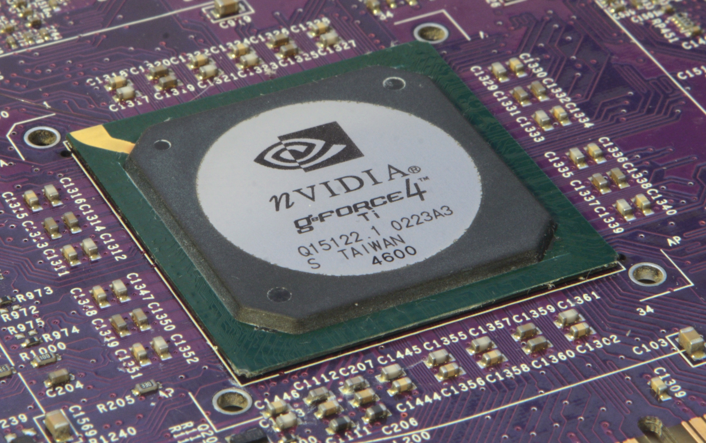 Nvidia Geforce Ti 4600 Graphics Processing Unit